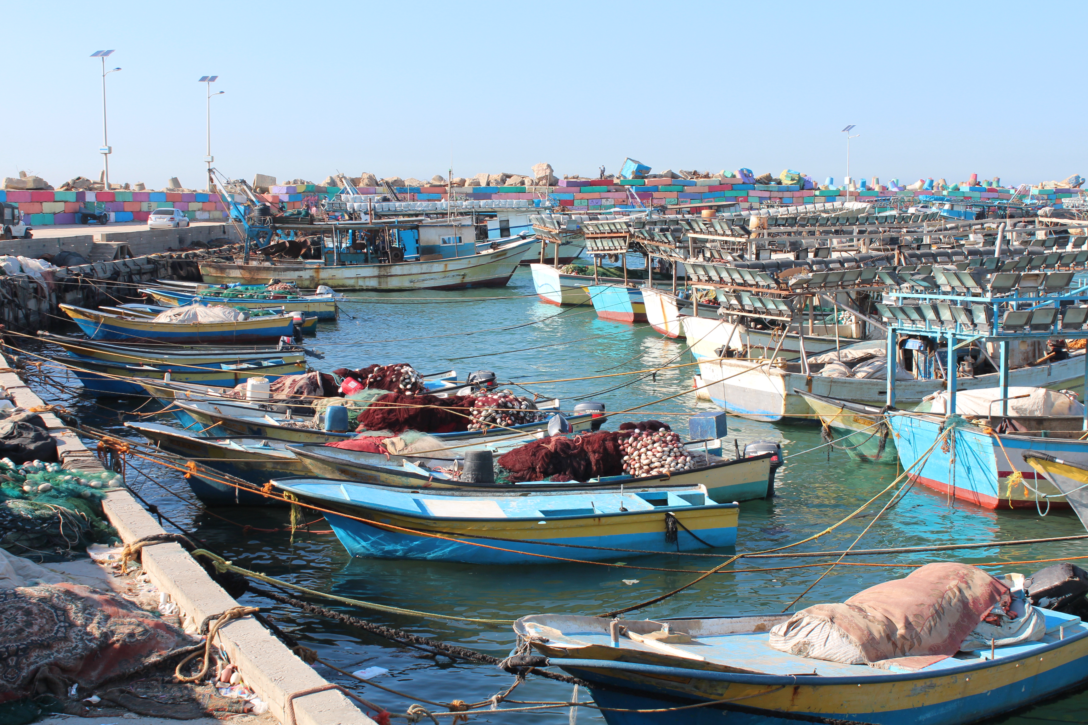 Photo From Gaza